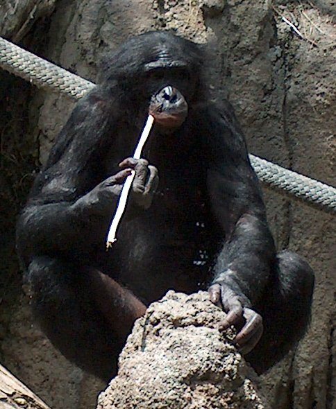 Bonobo at the San Diego Zoo "fishing" for termites.